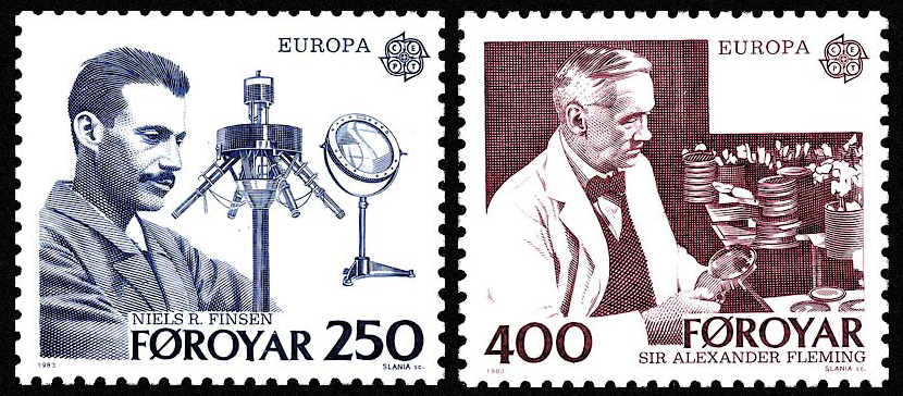 Postage stamps of the Faroe Islands, 1983. Issue on the Europe-CEPT program.